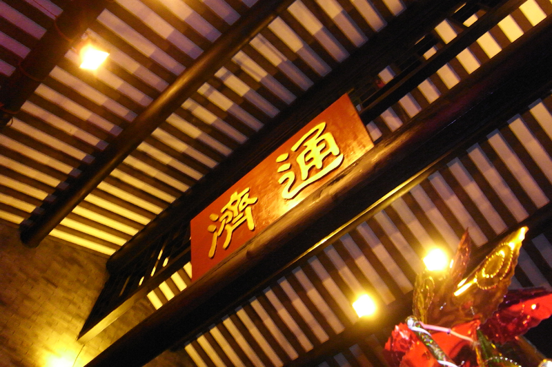 This is the memorial arch right before crossing the Tongji Bridge, which was one of the most magnificient and traditional spot for Lantern Festival. The two chinese characters "通济" means direct self-devotion and benefits to all mankind, which is written from right to left in old times.